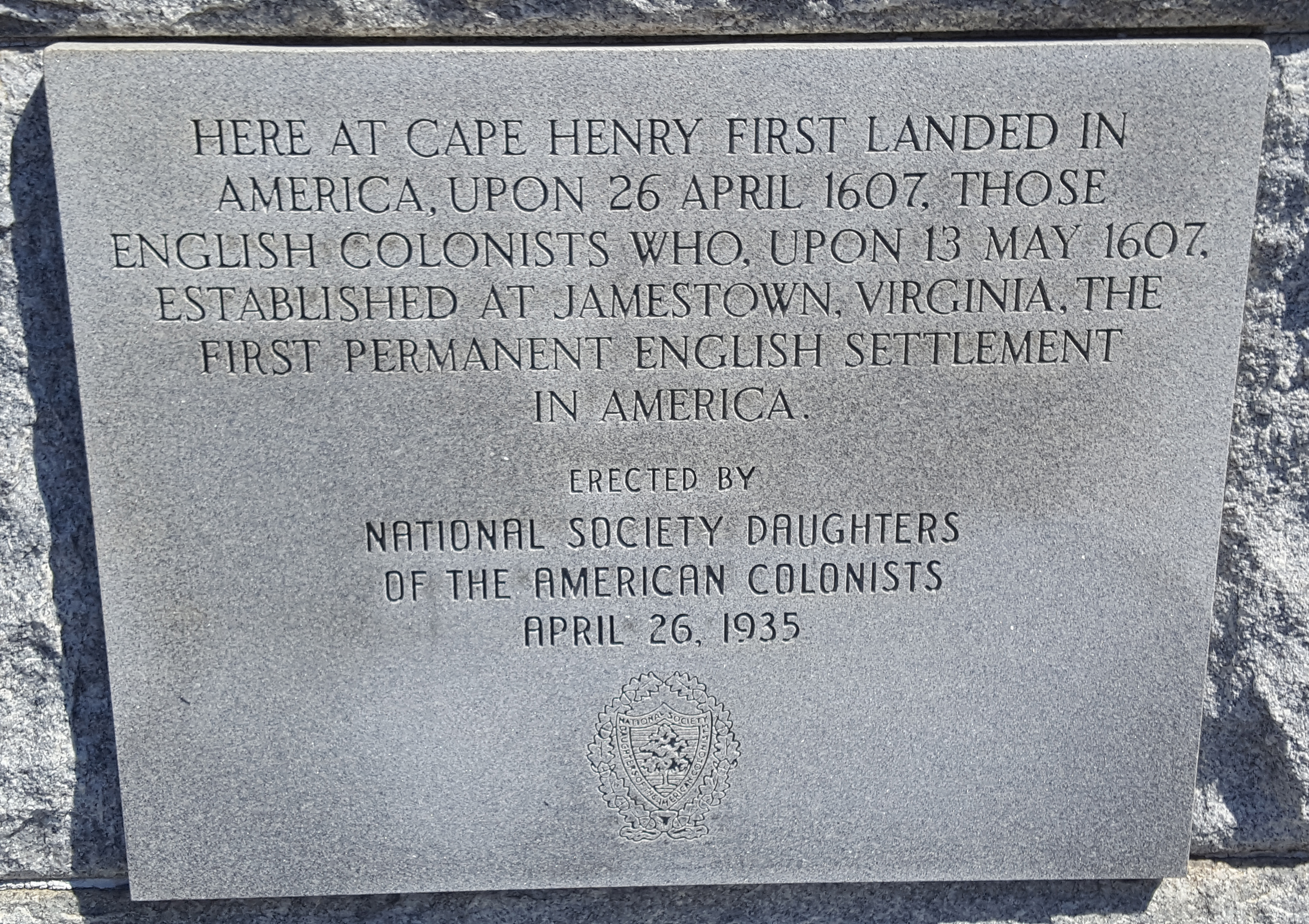 This is the sign on the base of the First Landing cross located on Cape Henry in Virginia Beach, Virginia.